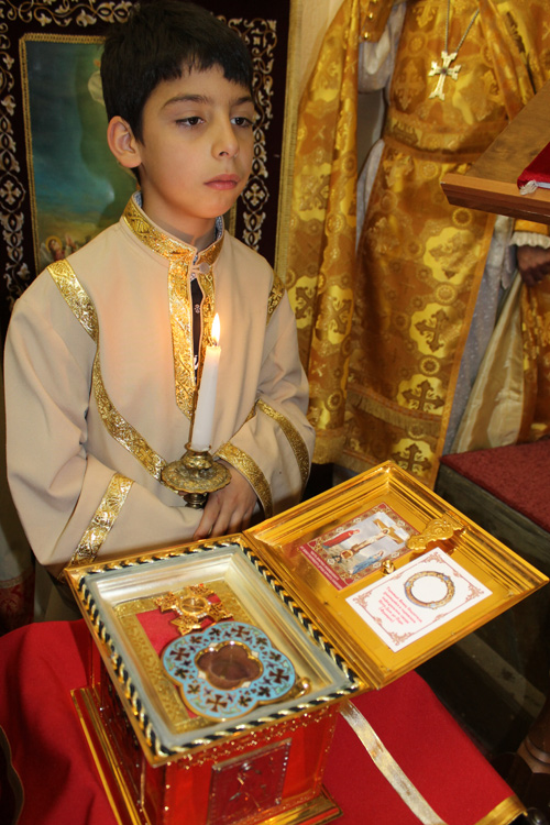 Saint Cross in Armenian Church Sourb Gevorg in Volgograd